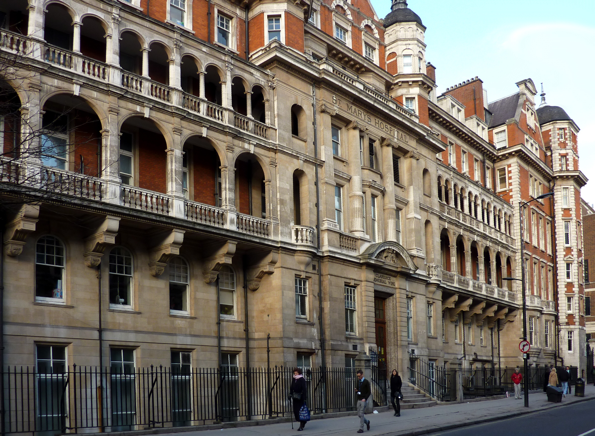 St Mary's Hospital, Paddington, London, UK. NHS Trust and Imperial College London campus. Home of the Alexander Fleming Museum. Sir Alexander Fleming, Nobel Prize for Medicine 1945 (Penicillin).